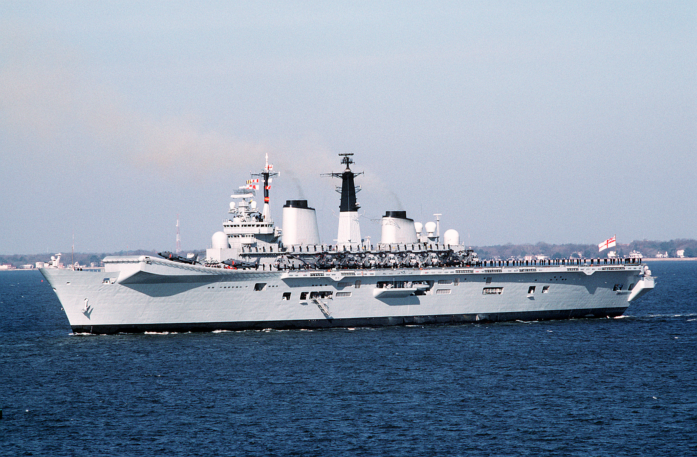 A port beam view of the British light aircraft carrier HMS INVINCIBLE (R-05) entering Hampton Roads for a five-day visit to Naval Station, Norfolk. Location: HAMPTON ROADS, NORFOLK, VIRGINIA (VA) UNITED STATES OF AMERICA (USA)